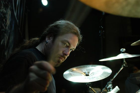 Tomas Haake warming up before a Meshuggah gig at Mondo, Stockholm, Sweden on the 20th of May, 2005. Photo by Valerian Noghin.